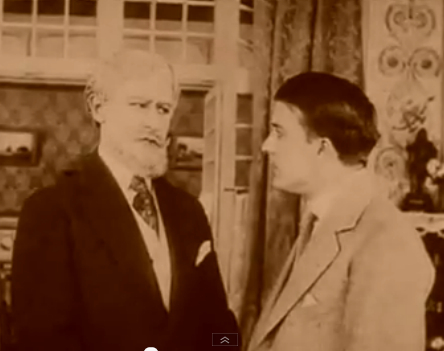 1915 screenshot of actors Jean Aymé e Édouard Mathé in the Louis Feuillade-directed film series Les Vampires